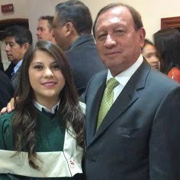 Then-Provincial Perfect Gustavo Pareja with his daughter in Otavalo early 2014